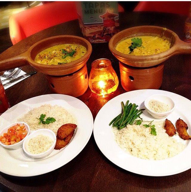 Las Iguanas specialty Xinxim